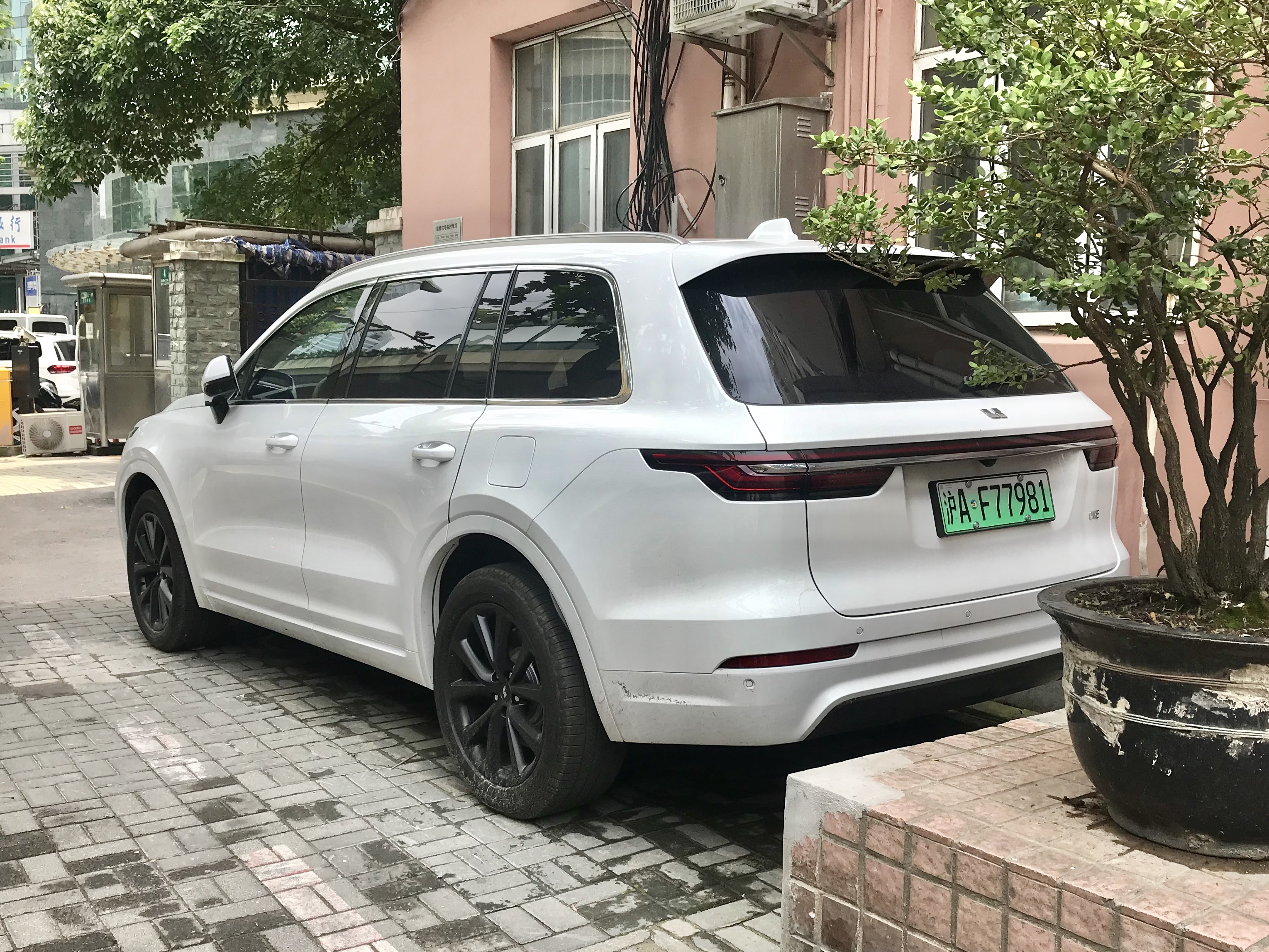 Lixiang One